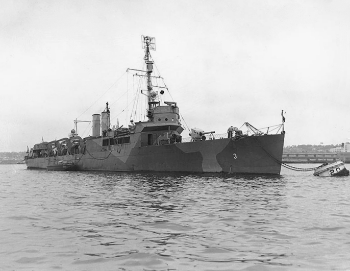 The U.S. Navy high speed transport USS Gregory (APD-3) in port, circa early 1942.